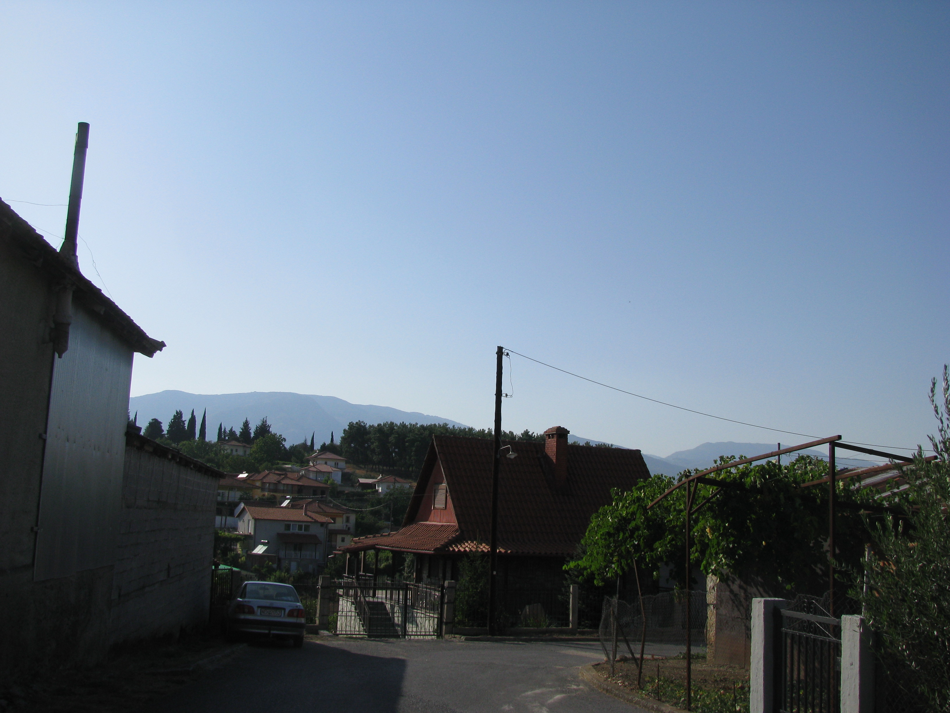 Village of Gerkarci or Gerakon, Greece